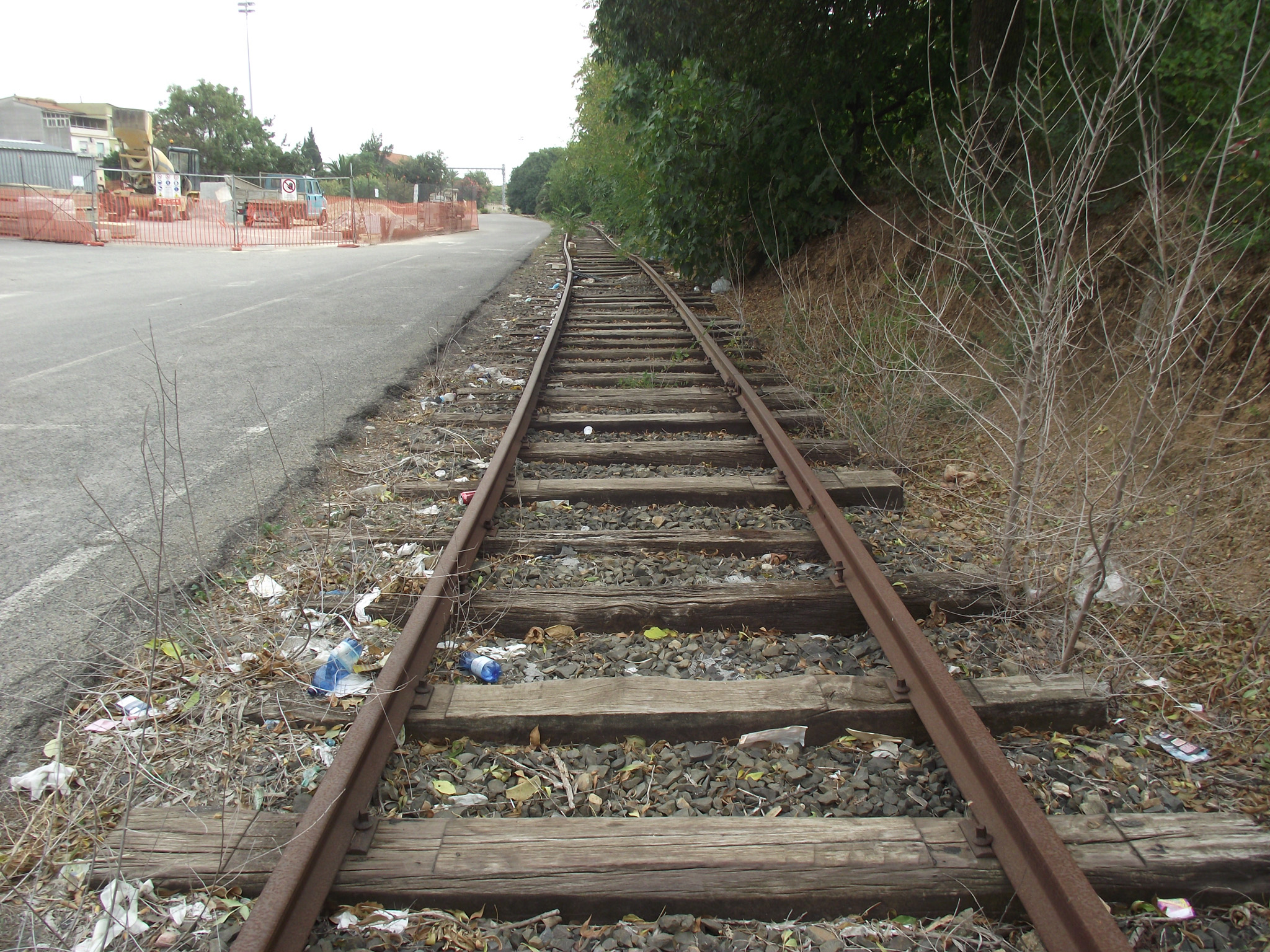 The former standard gauge rail link between the two railway stations in the city of Iglesias, in Sardinia, Italy: the Ferrovie dello Stato station (where the photo was taken) and the Ferrovie Meridionali Sarde one (narrow gauge), closed in 1969, that had its freight terminal on the right of this track.